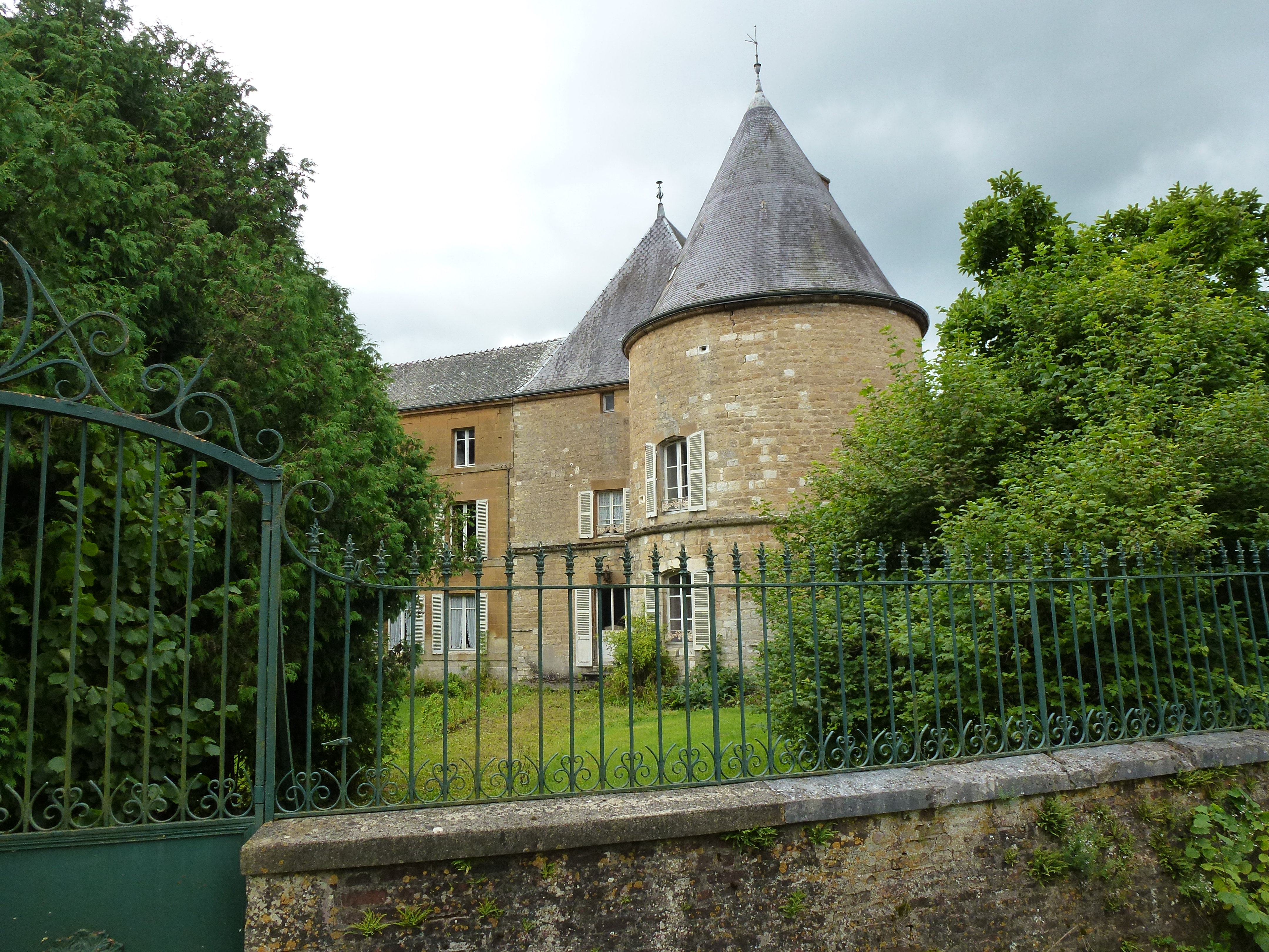 Montigny-sur-Vence (Ardennes) château